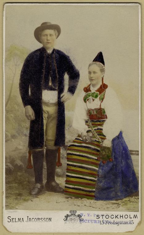 Man and woman in traditional Swedish costumes